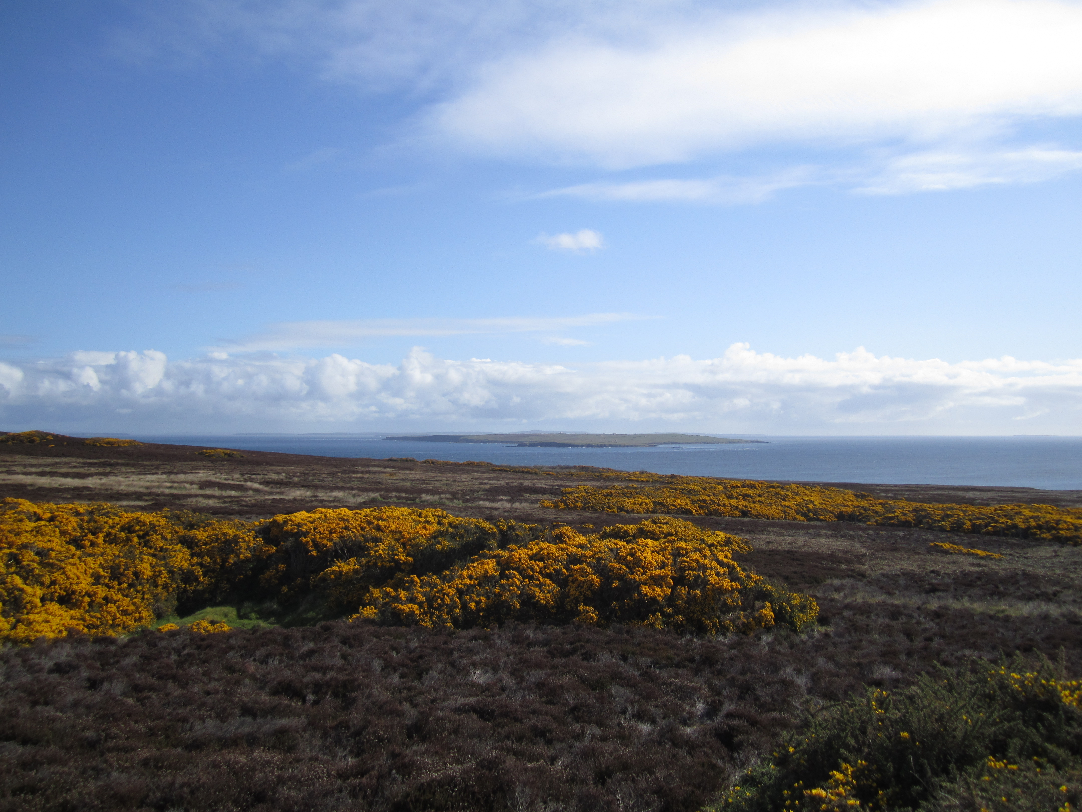 Orkney